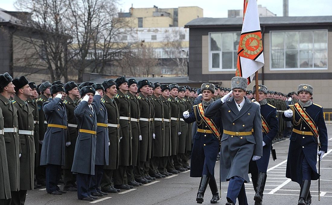 Banner of the Ryazan Higher Airborne Command School with the Order of Suvorov. 15 Nov 2013.